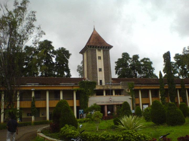 My College's Photo